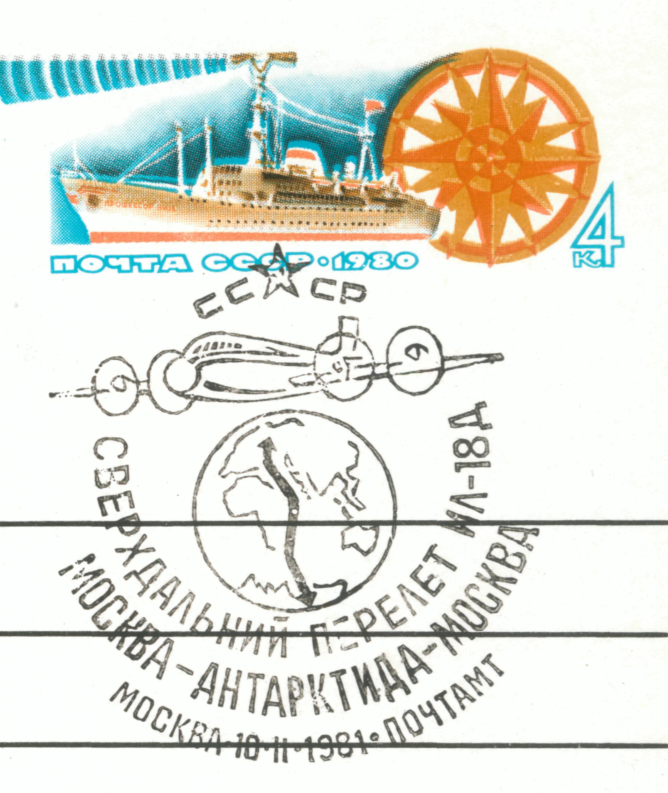 Soviet preprinted (original) stamp of 4 kopecks, 1980. Ilyushin Il-18 long distance flight Moscow-Antarctica-Moscow. Detail of a postcard of the Soviet Union (postal stationery).